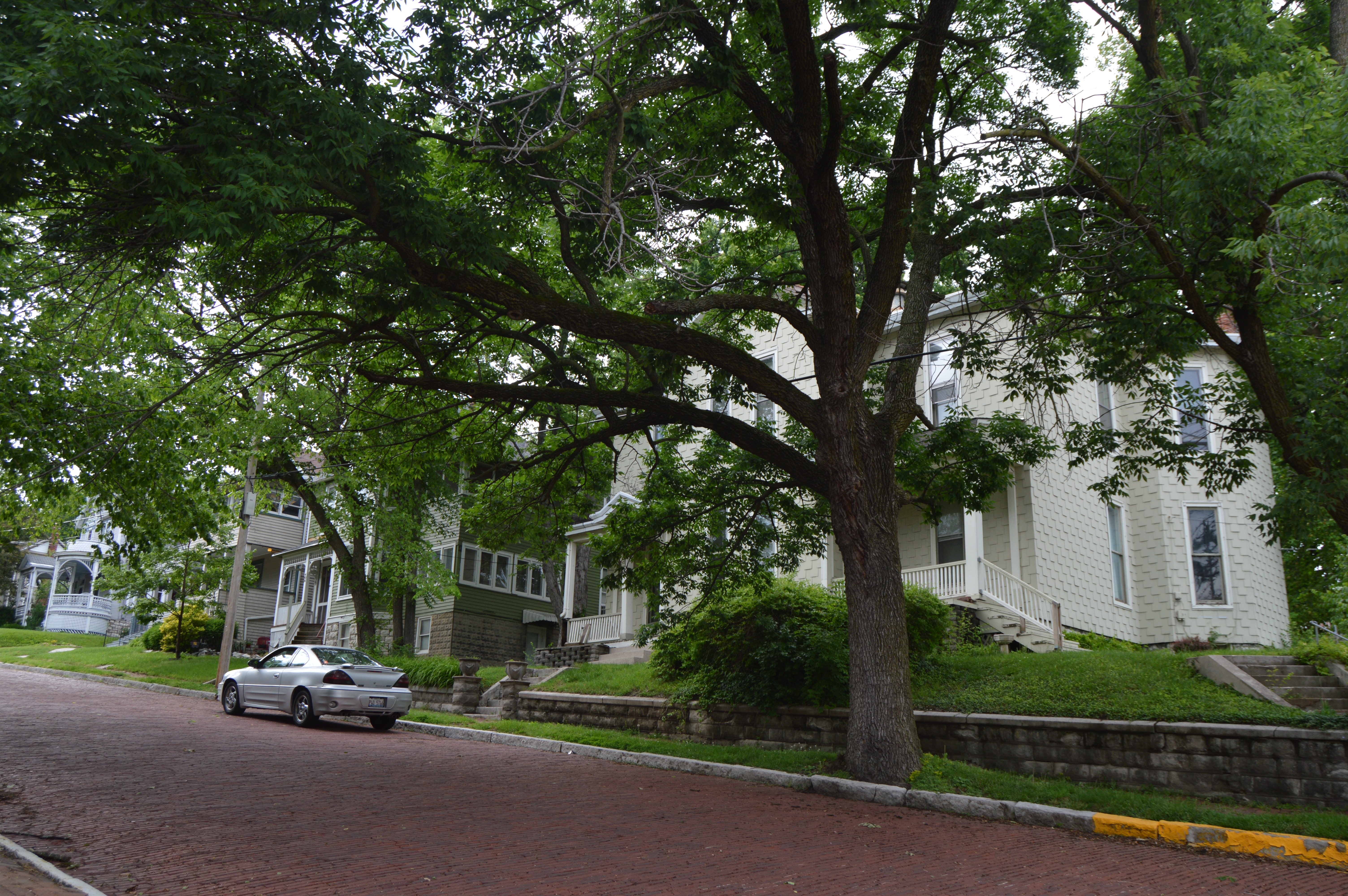 Houses on the northern side of Fourth Street just west of the William Street intersection in Alton, Illinois, United States. This neighborhood is a part of the Christian Hill Historic District, a historic district that is listed on the National Register of Historic Places.